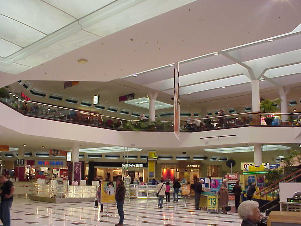 Some more of the shops located inside Westfield Bay City.